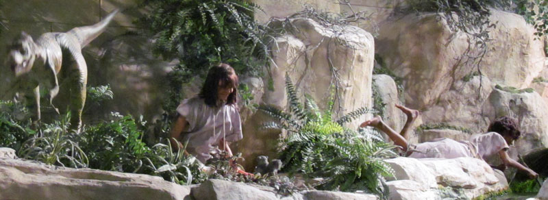 A display showing children playing near docile dinosaurs in the Creation Museum in Petersburg, Kentucky